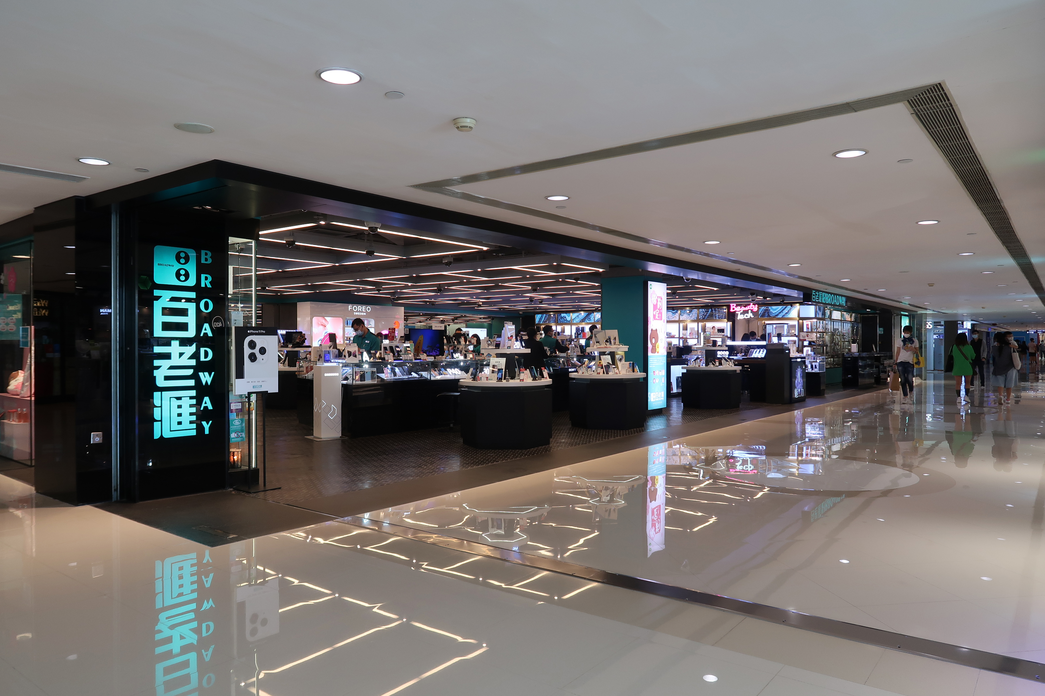 Broadway in Ocean Centre